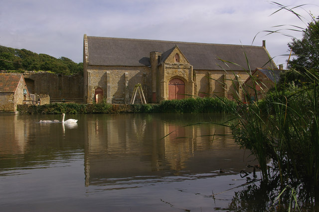 Tithe Barn, Abbotsbury